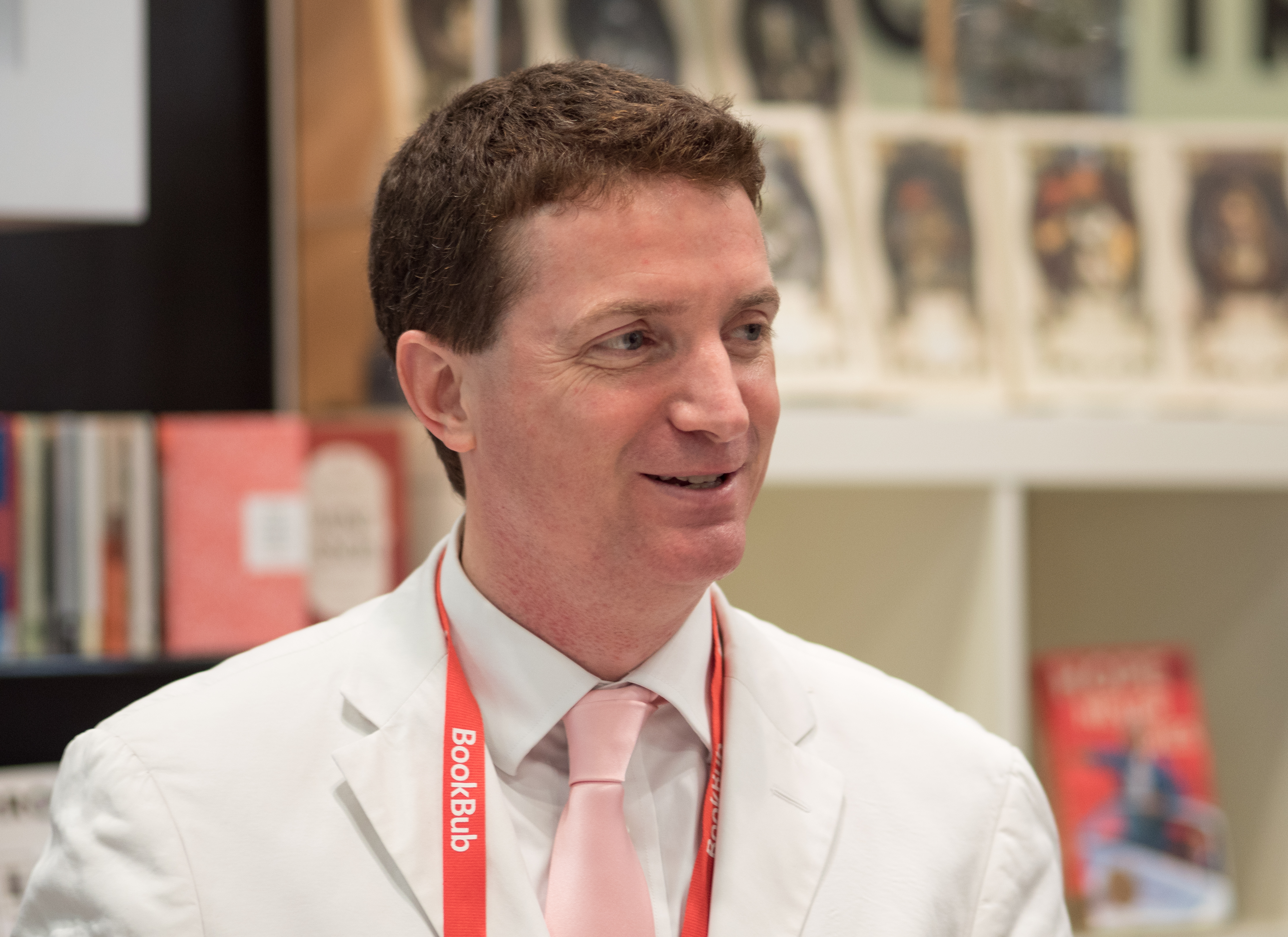 Grady Hendrix BookExpo America 2018 at the Javits Convention Center in New York City.